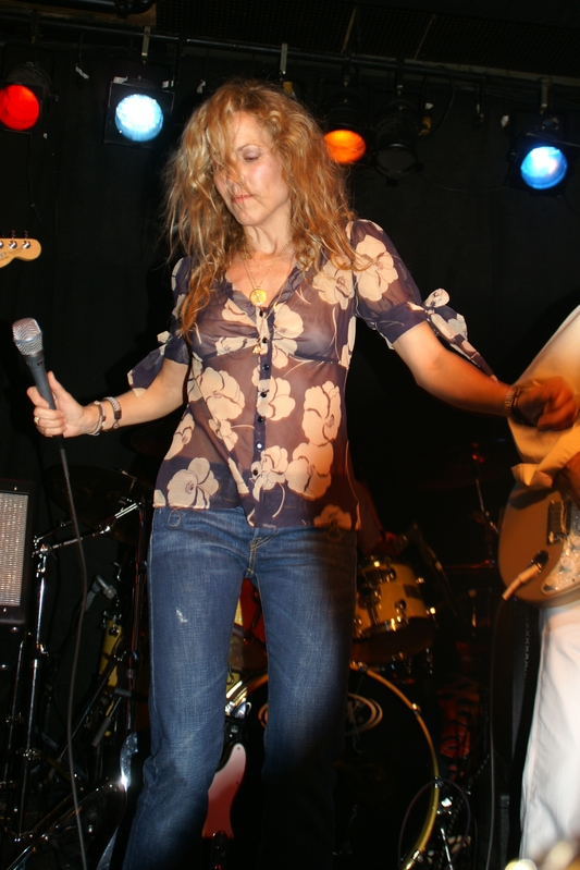 Sheryl Crow at B. B. King's, Memphis, TN